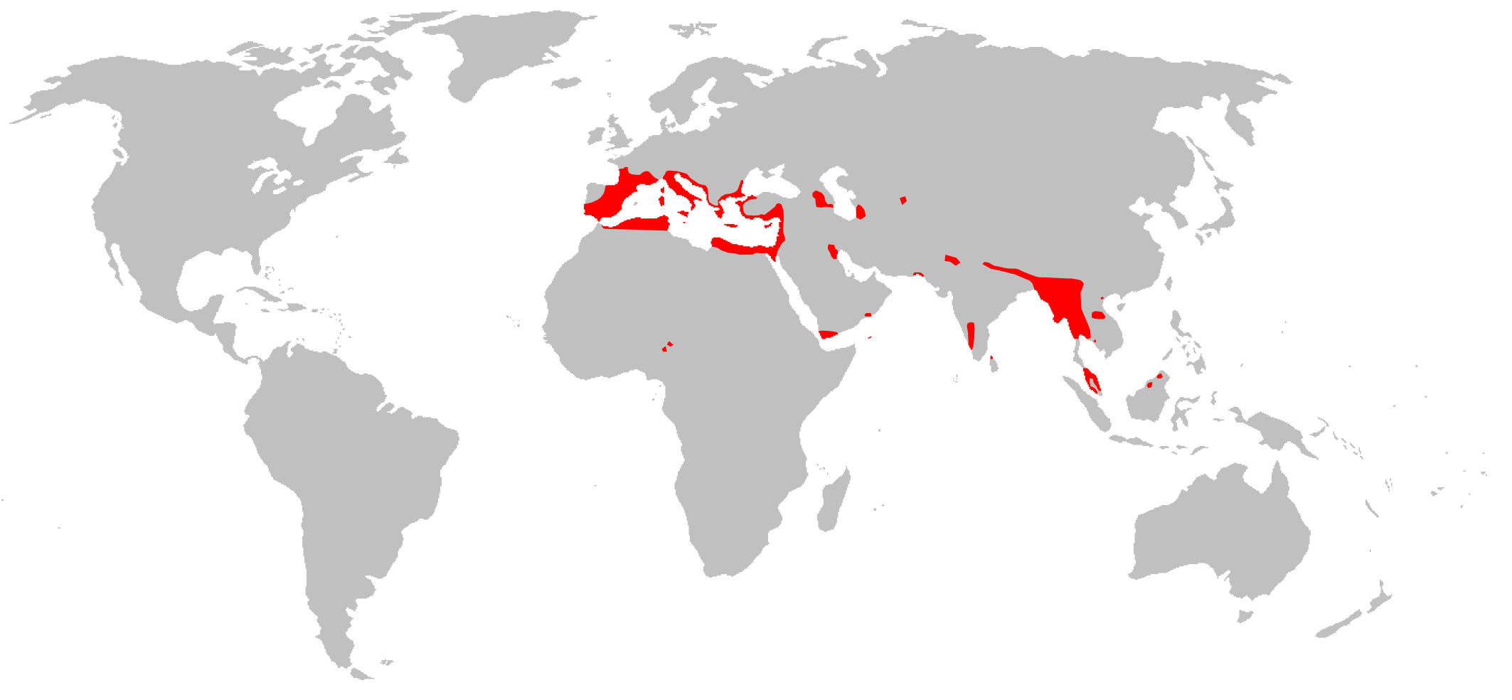 Suncus etruscus range map.